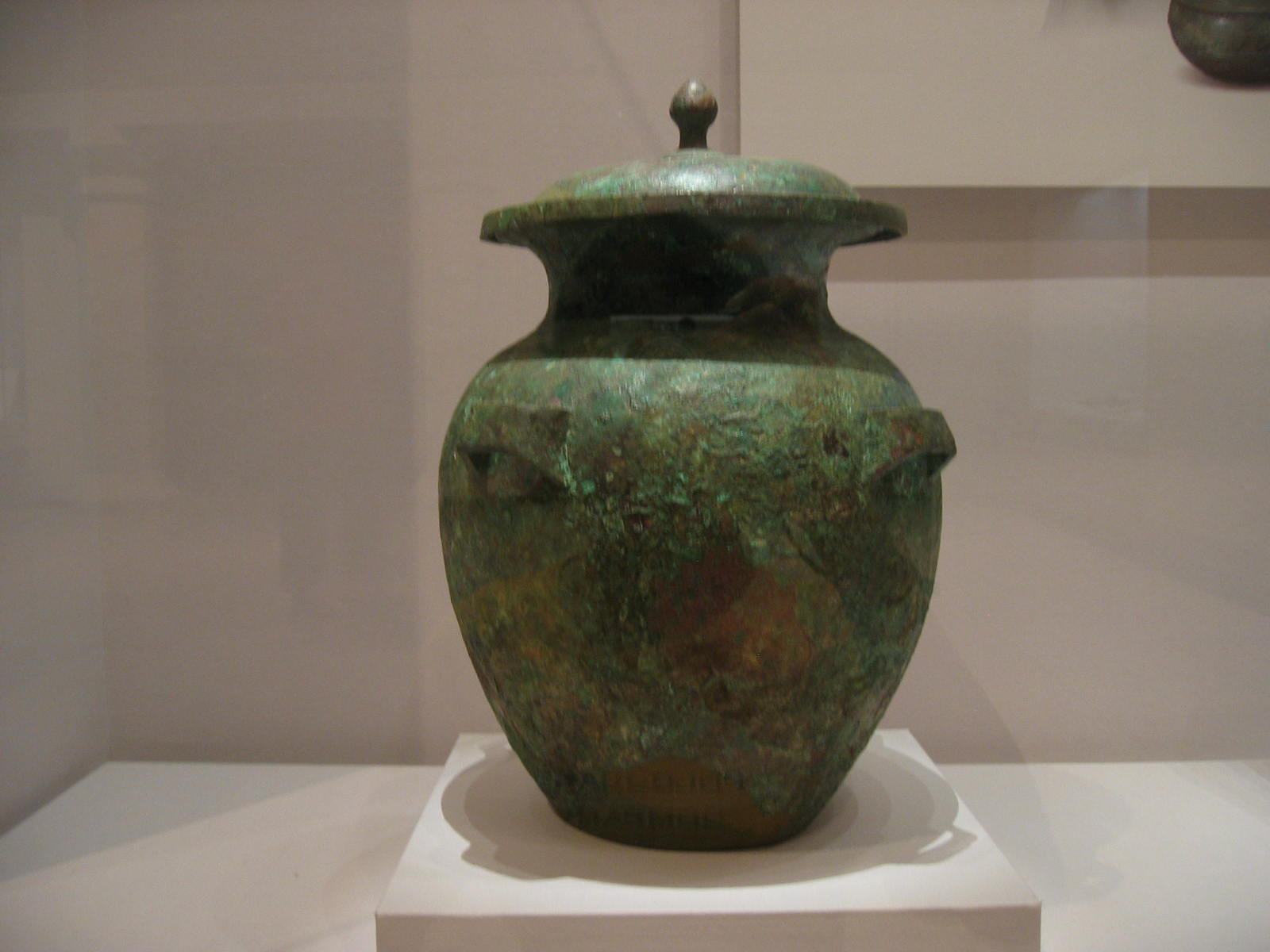 Silla jar from Gyeongju.